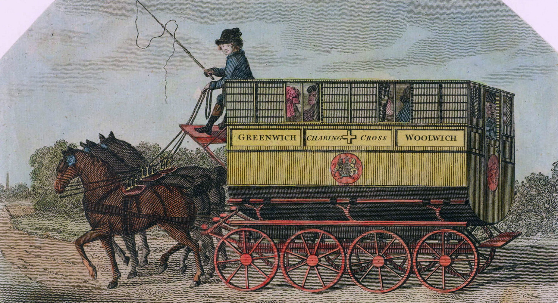 The Royal Sailor, an omnibis designed by Rudolph Ackermann and ran between Charing Cross to Greenwich and Woolwich. Drawing by Joseph C Stadler, published in Imitations of Drawings of Fashionable Carriages (1791).